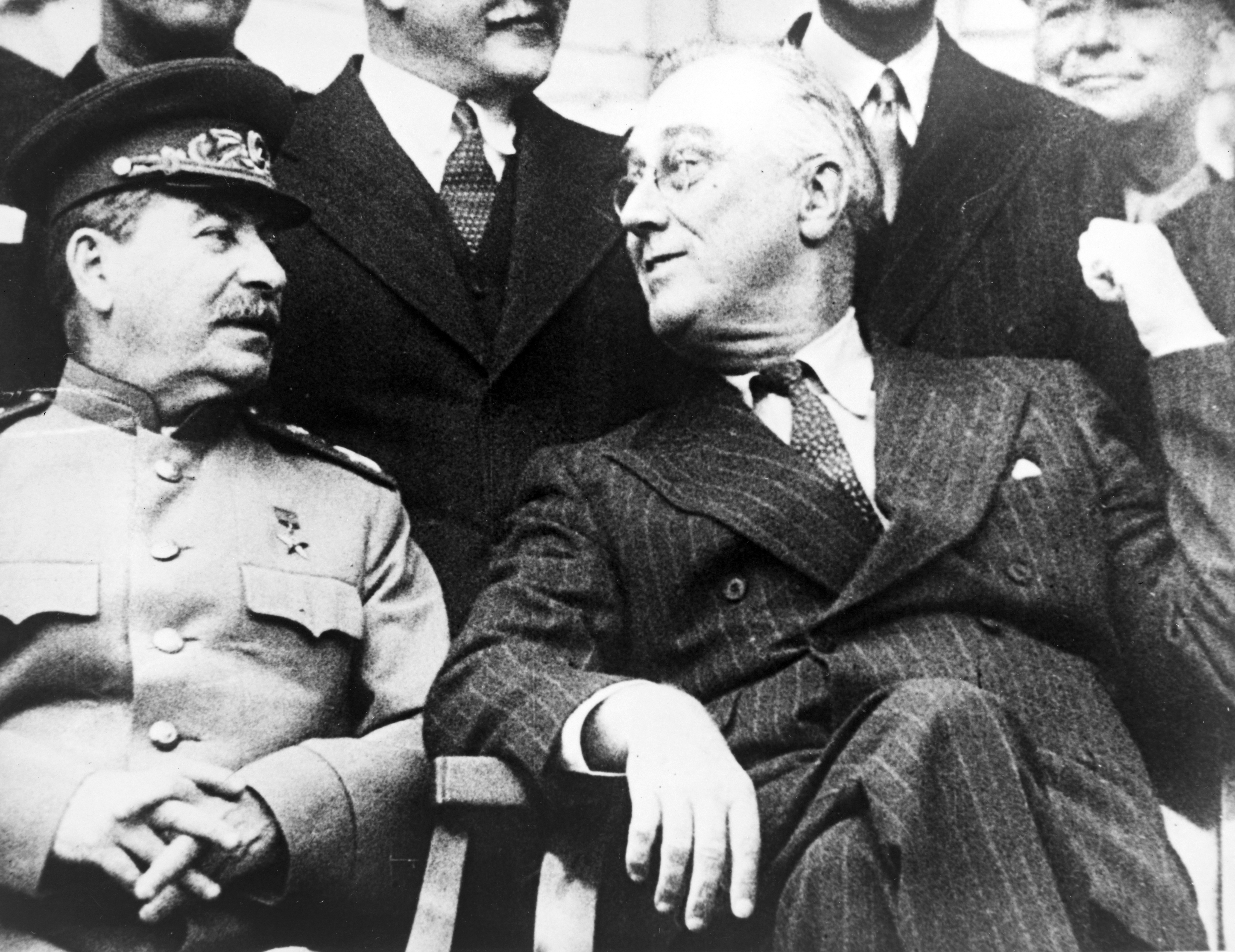 Joseph Stalin and Franklin Delano Roosevelt at the Tehran Conference.